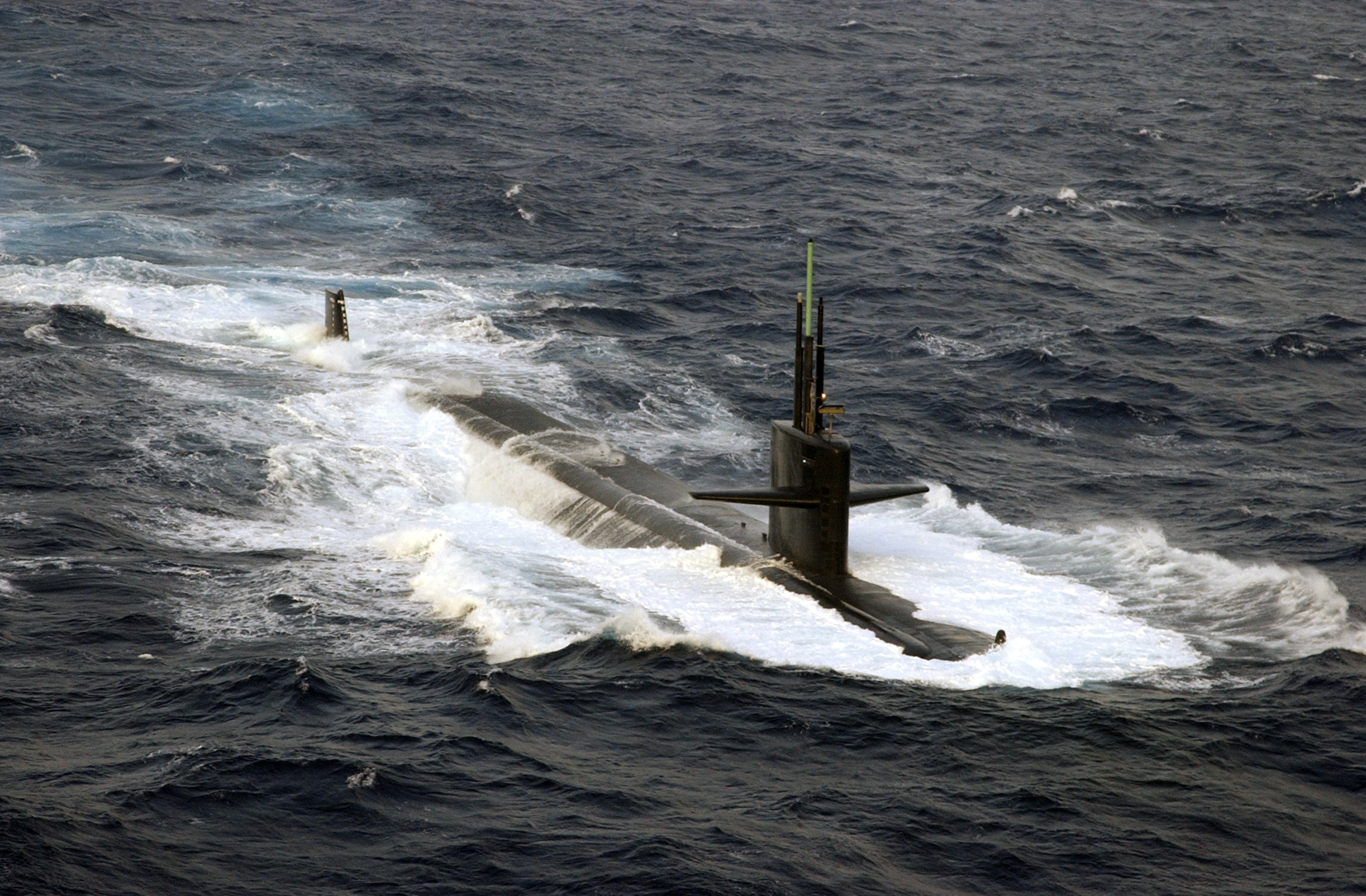 Atlantic Ocean (July 12, 2004) - The Los Angeles-class submarine USS Albuquerque (SSN 706) surfaces in the Atlantic Ocean while participating in Majestic Eagle 2004. Majestic Eagle is a multinational exercise being conducted off the coast of Morocco. The exercise demonstrates the combined force capabilities and quick response times of the participating naval, air, undersea and surface warfare groups. Countries involved in the NATO led exercise include the United Kingdom, Morocco, France, Italy, Portugal, Spain, and Turkey. Truman's participation in Majestic Eagle is part of her scheduled deployment supporting the Navy's new fleet response plan (FRP) Summer Pulse 2004, the simultaneous deployment of seven carrier strike groups (CSGs), demonstrating the ability of the Navy to provide credible combat across the globe, in five theaters with other U.S., allied, and coalition military forces. U.S. Navy photo by Photographer's Mate Airman Josh Kinter (RELEASED)